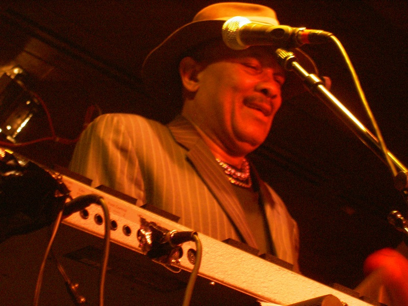 Jazz and soul artist Roy Ayers in concert on March 29, 2006 by Werner Nieke